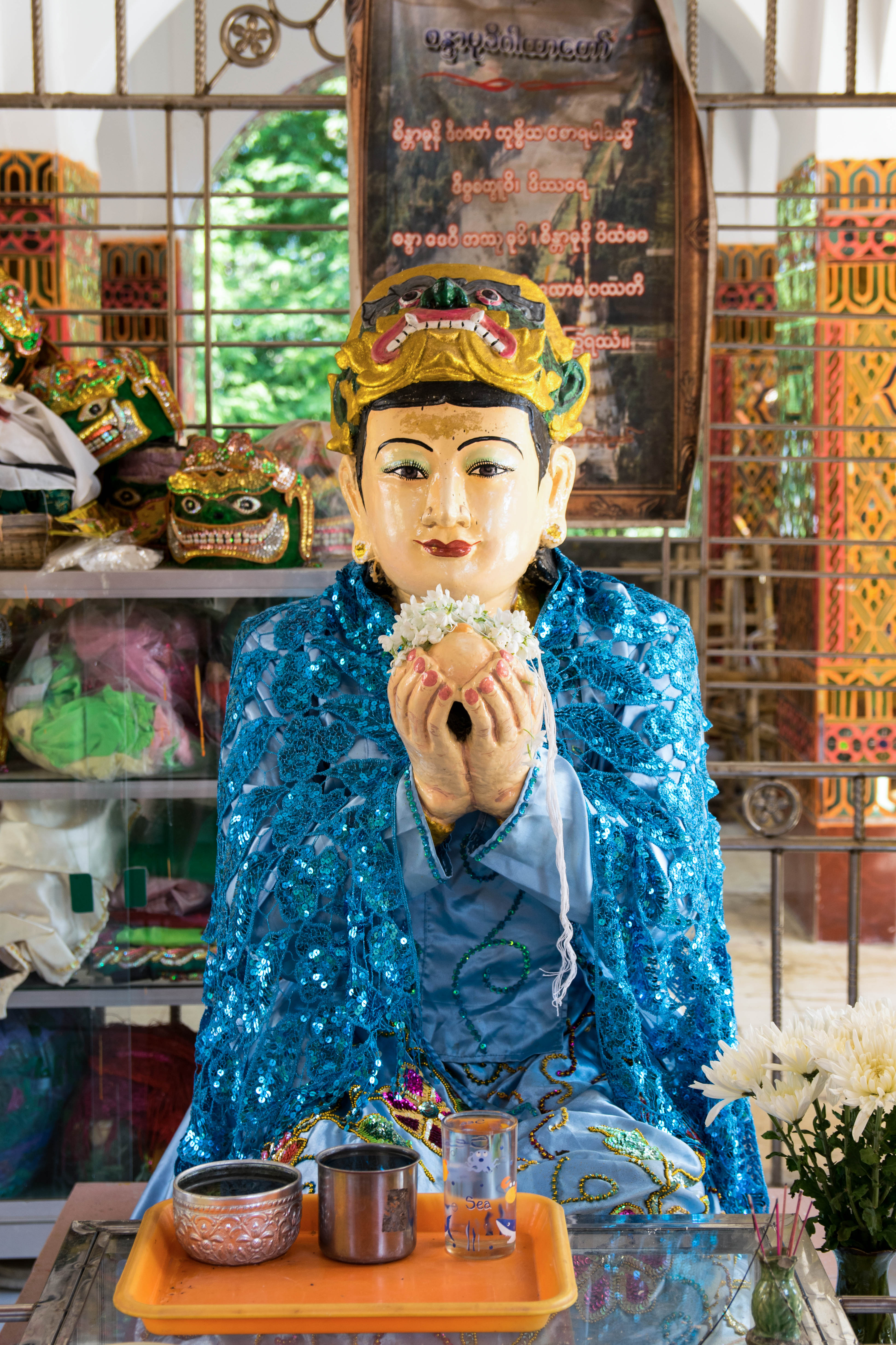 Chandamukhi offering her own breast to Buddha